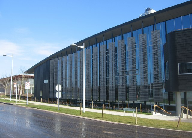 Comfortable on the eye The Cavendish Laboratory, JJ Thomson Avenue.